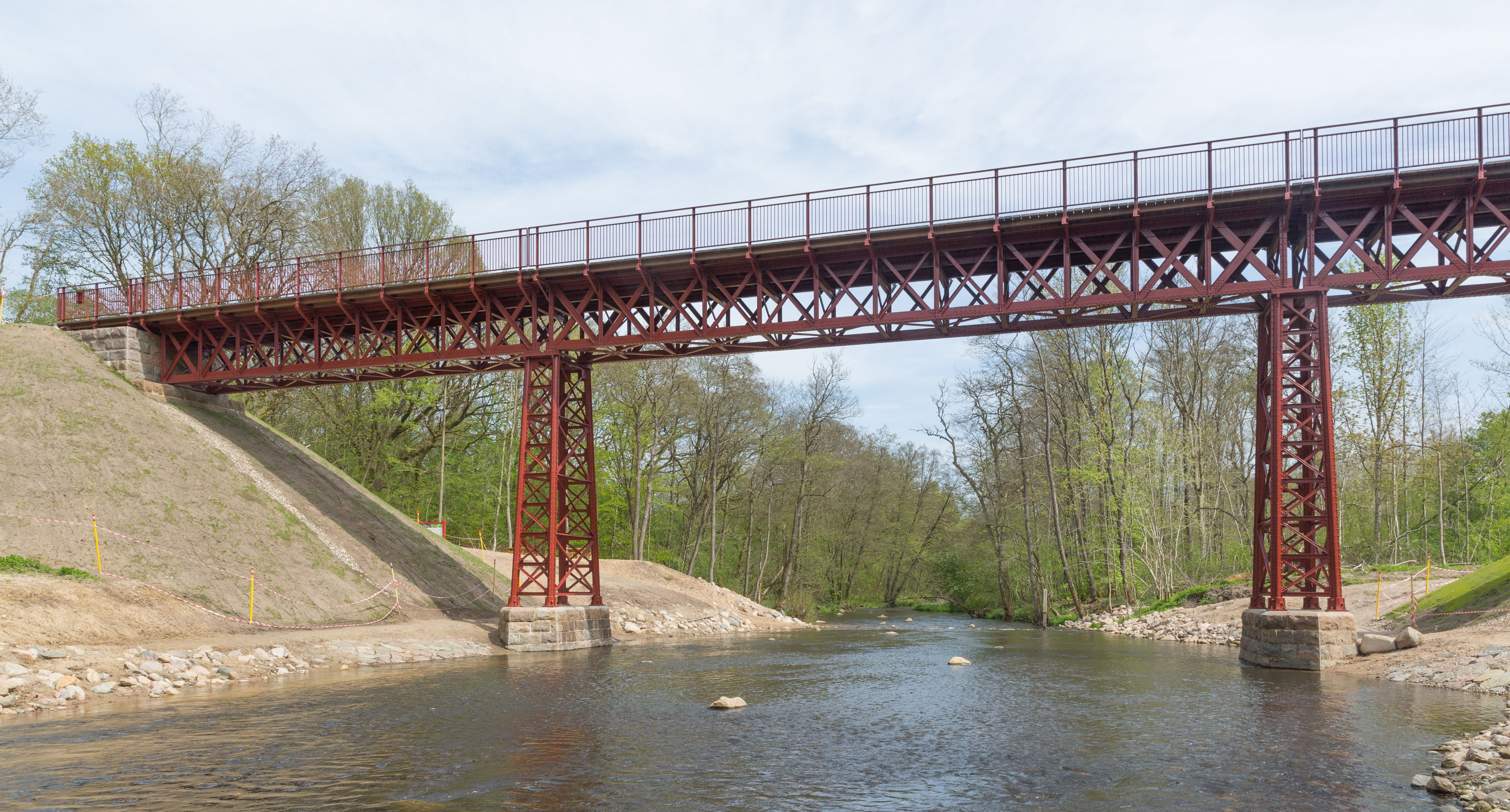 The recovered railway bridge over the river Gudenå at Gammelstrup